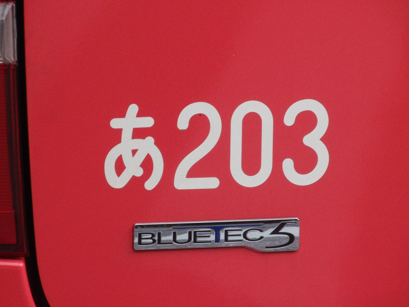 Mark of fleet number for Kanagawa Chuo Kotsu